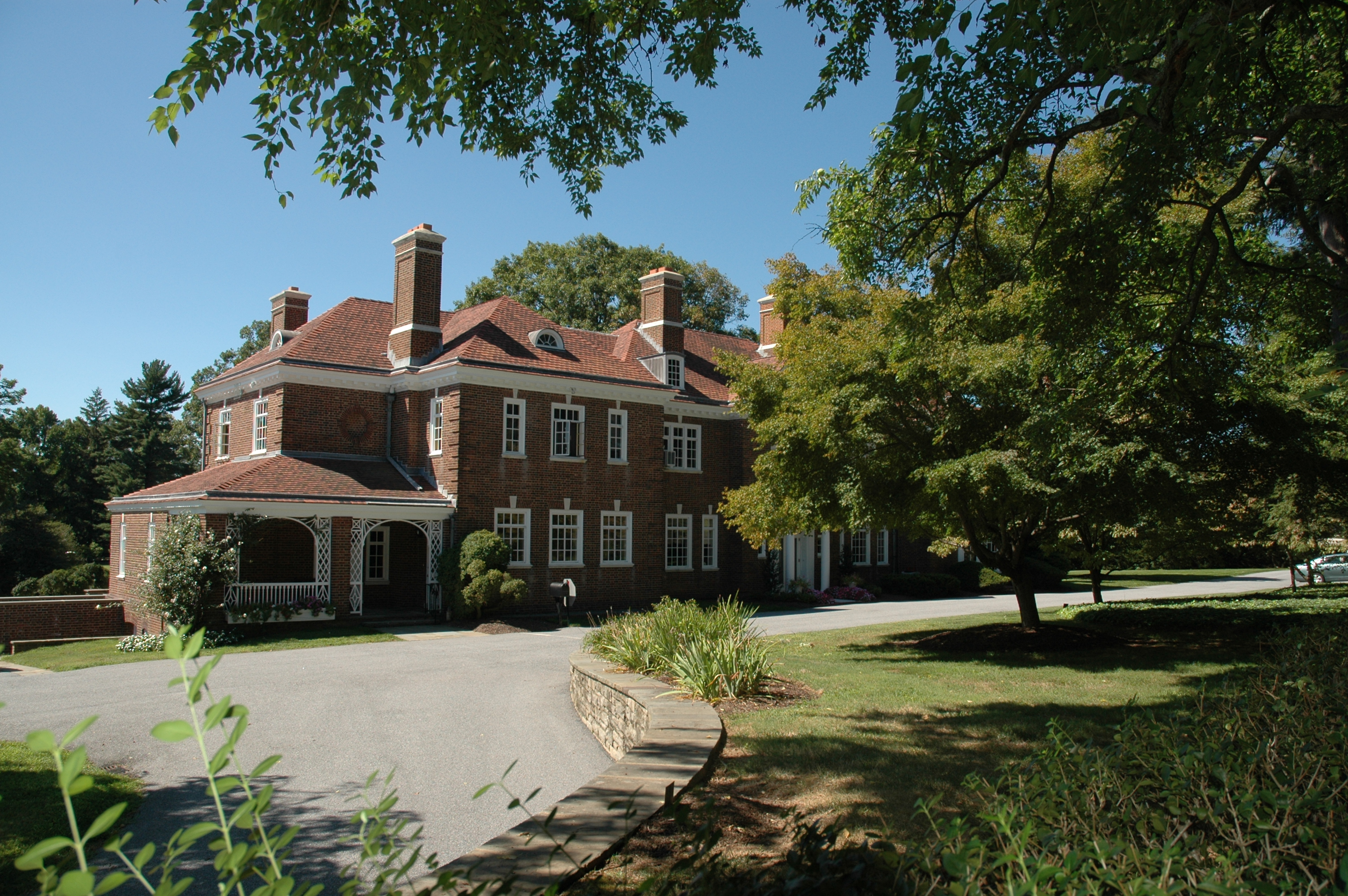 Irisbrook Mansion of the Raskob estate in Wilmington, Delaware